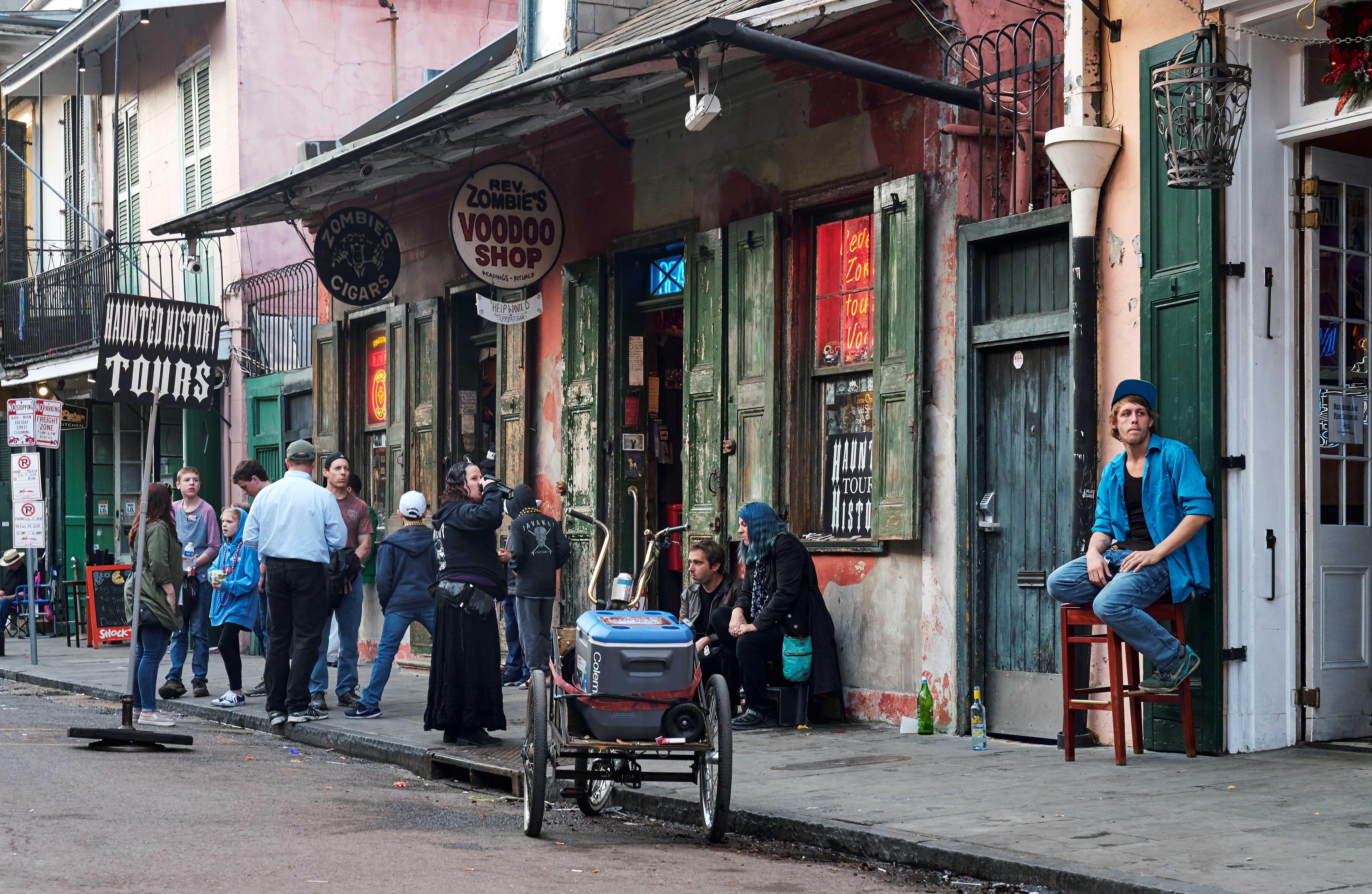 Bourbon Street, French Quarter